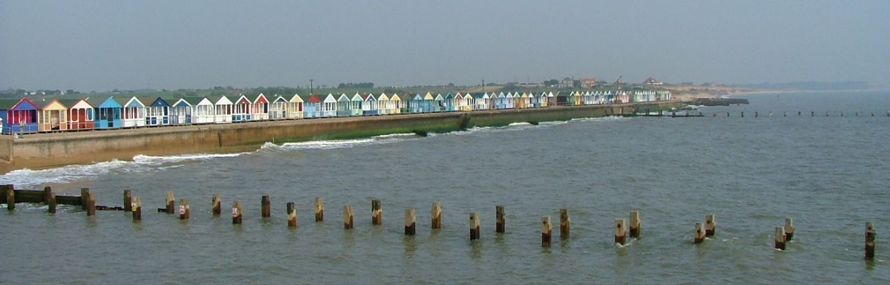 Beach huts at Southwold, Suffolk